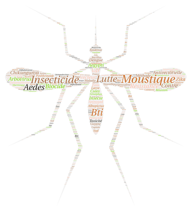 Lutte antivectorielle : la résistance des moustiques